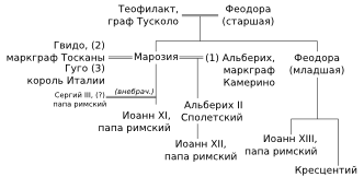 Family tree of Theophylacts